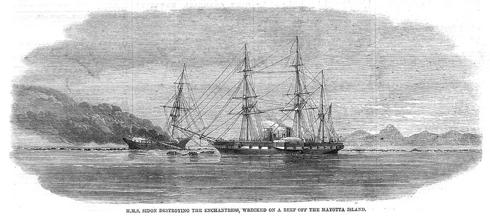 engraved print published in the London Illustrated News in 1861